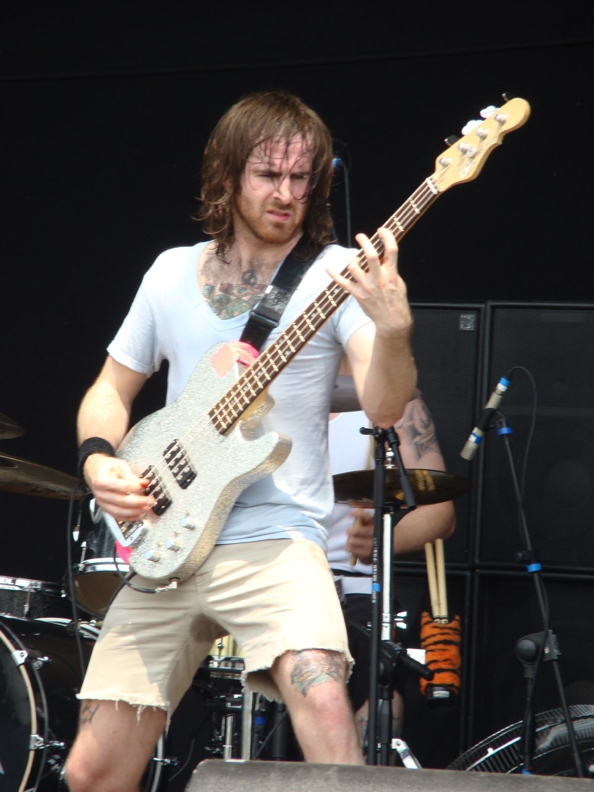 Gods of Metal 2008